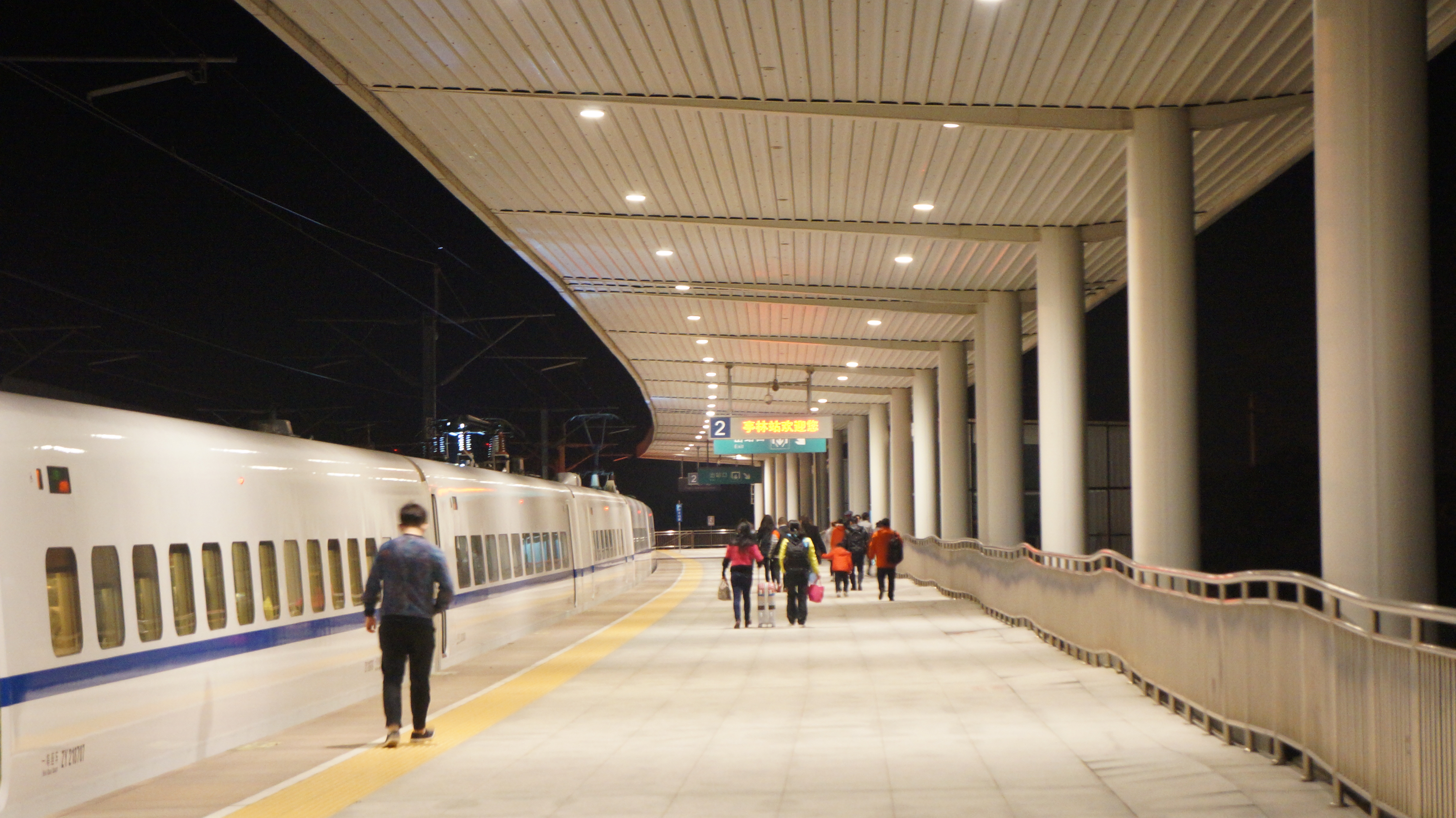 201603 Platform 2 of Tinglin Station